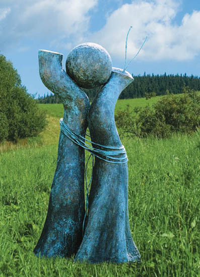 Lubo Kristek: Touch of Two Genders, 1994, bronze, 250 cm